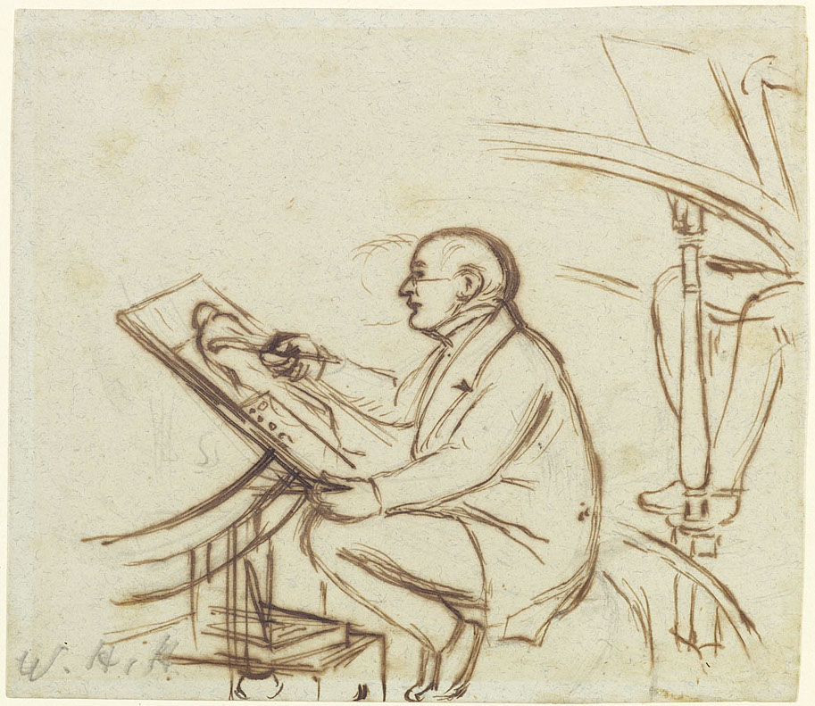 Ink drawing of an artist (William Etty) at work. Crop from File:William Etty at the Life Class by William Holman Hunt YORAG R3257-1.jpg